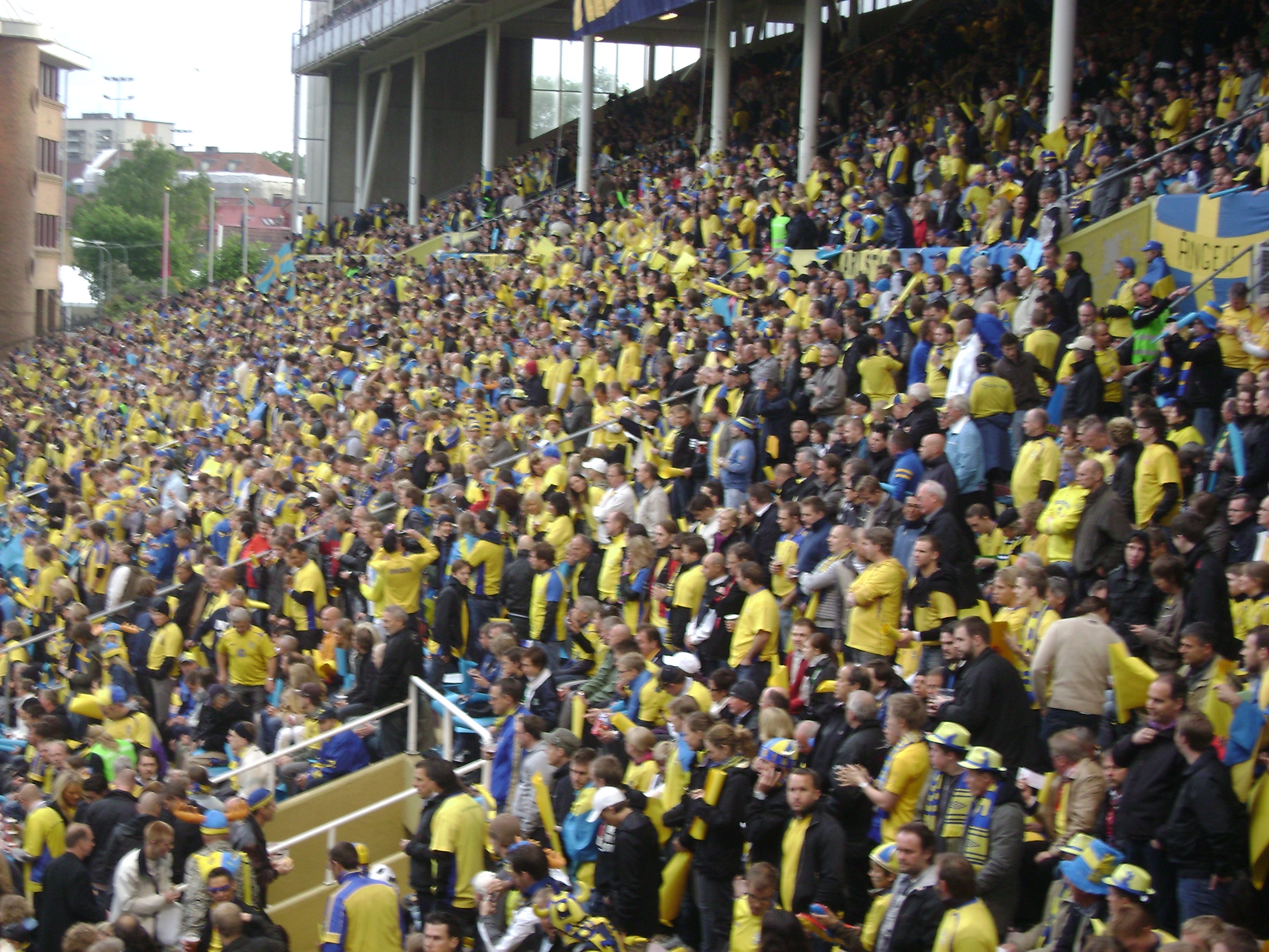 Sweden plays soccer against Denmark in Solna, Sweden on 6 June 2009 (Swedish national day). Denmark wins, 1-0. in a qualifying game for the men's 2010 FIFA World Cup in South Africa. Here are Swedish supporters watching the game.